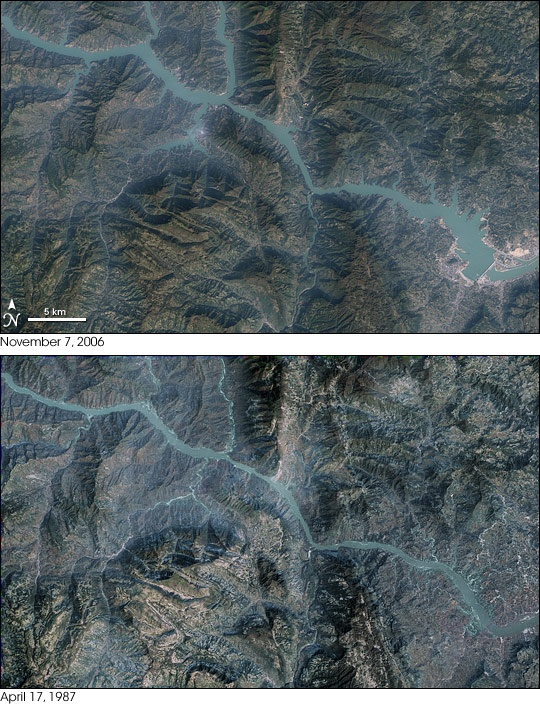 These images show the Yangtze River in the vicinity of the Three Gorges Dam (lower right). Landsat 7 acquired the top image on November 7, 2006, after the main wall was complete. Landsat 5 acquired the bottom image on April 17, 1987. The lower image has been recolored to more closely match the colors of the upper one.